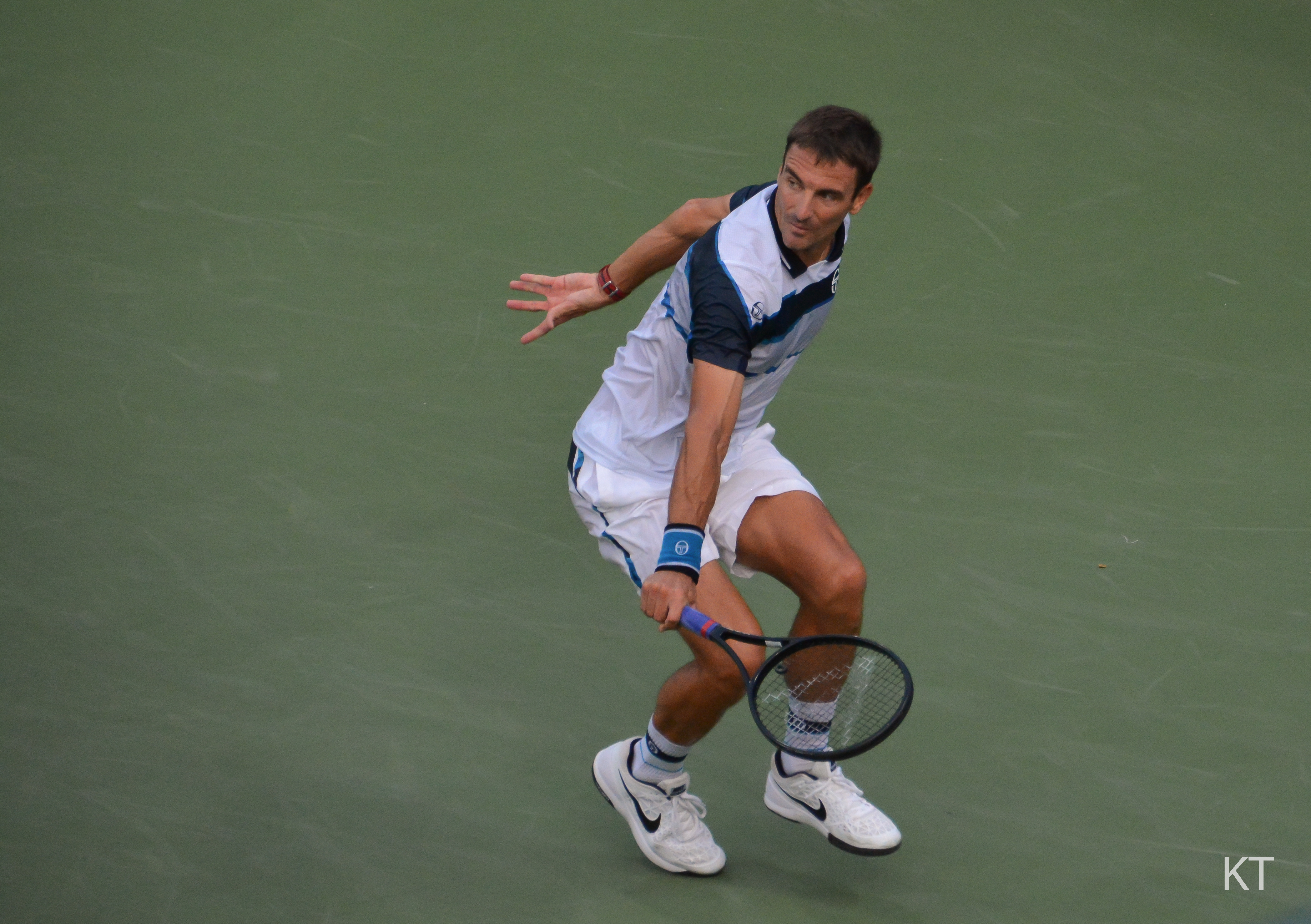 Tommy Robredo v Stefanos Tsitsipas. Day 1 of US Open 2018.